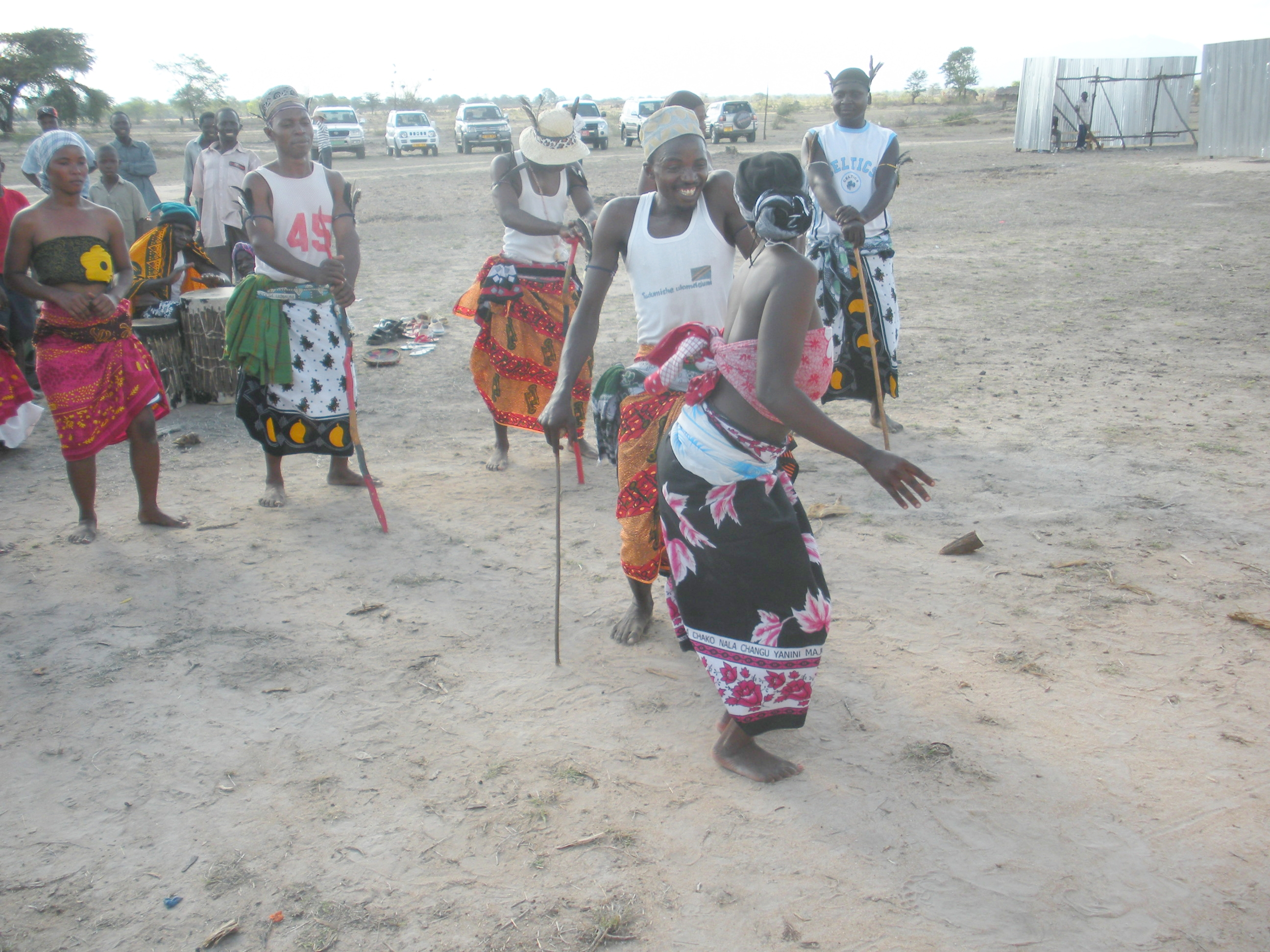 The native African dance at Dakawa,Morogoro,Tanzania.This photo has been taken by Mr.Chen Hualin.